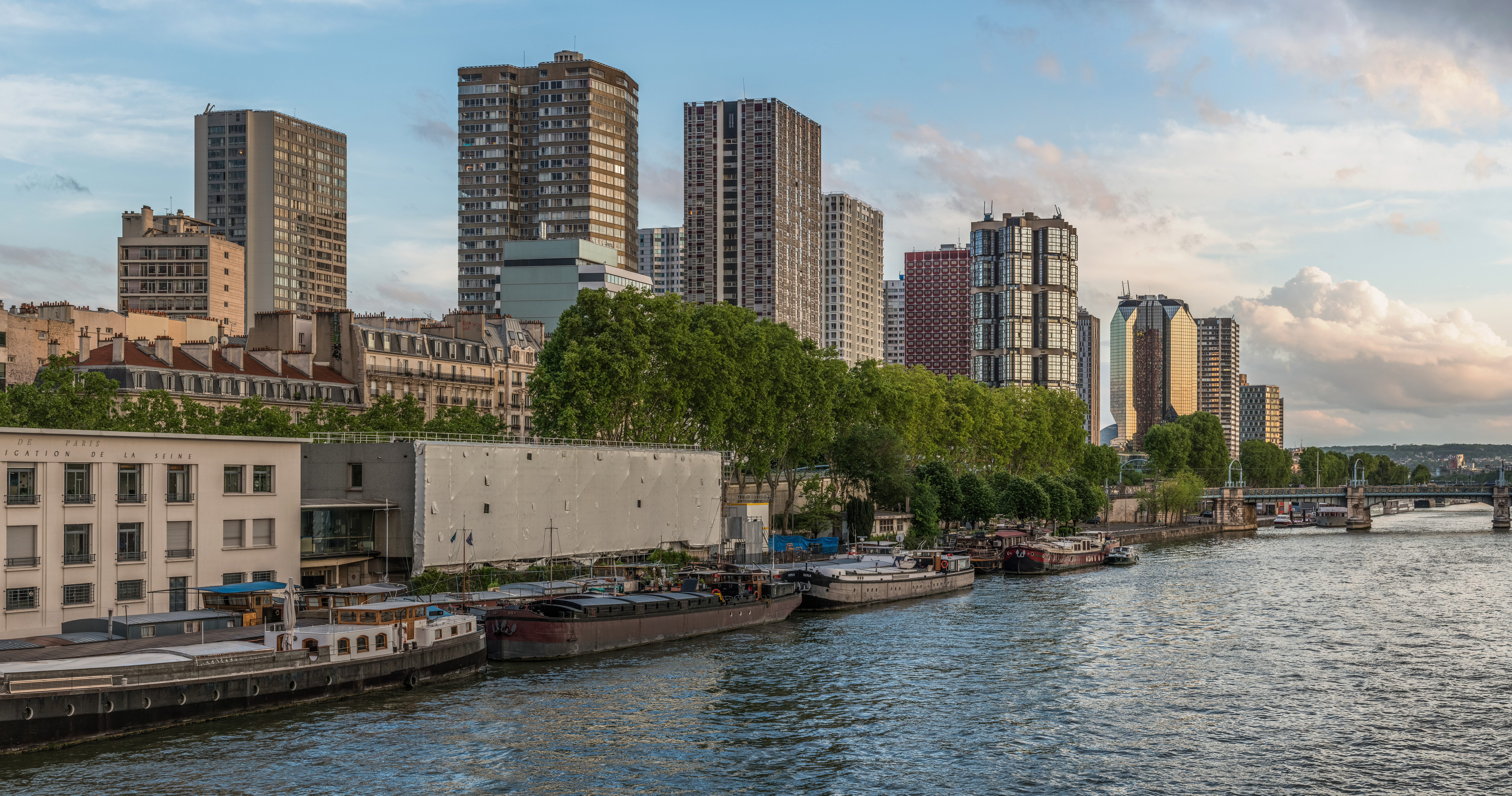 The 15th arrondissement of Paris as seen from the Pont de Bir-Hakeim, shortly before sunset. Copyright warning: A subject in this image is protected by copyright. This image features an architectural or artistic work, photographed from a public space in France. There are limited Freedom of Panorama exemptions in France, which means that they cannot be photographed freely for anything other than non-commercial purposes. However, French jurisprudence states that no infringement is constituted when the work is an "accessory compared to the main represented or handled subject". If a copyrighted architectural or artistic work is contained in this image and it is a substantial reproduction, this photo cannot be licensed under a free license, and will be deleted. Framing this image to focus on the copyrighted work is also a copyright violation. Before reusing this content, ensure that you have the right to do so. You are solely responsible for ensuring that you do not infringe someone else's copyrights. See our general disclaimer for more information. NOTE: This image is a panorama consisting of 5 frames that were merged or stitched in Hugin. As a result, this image necessarily underwent some form of digital manipulation. These manipulations may include blending, blurring, cloning, and colour and perspective adjustments. As a result of these adjustments, the image content may be slightly different from reality at the points where multiple images were combined. This manipulation is often required due to lens, perspective, and parallax distortions.